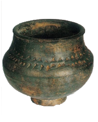 Ancient pottery celtiberian funerary, of Iron Age.